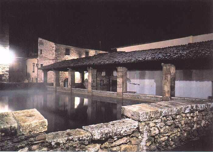 Bath spa of Bagno Vignoni